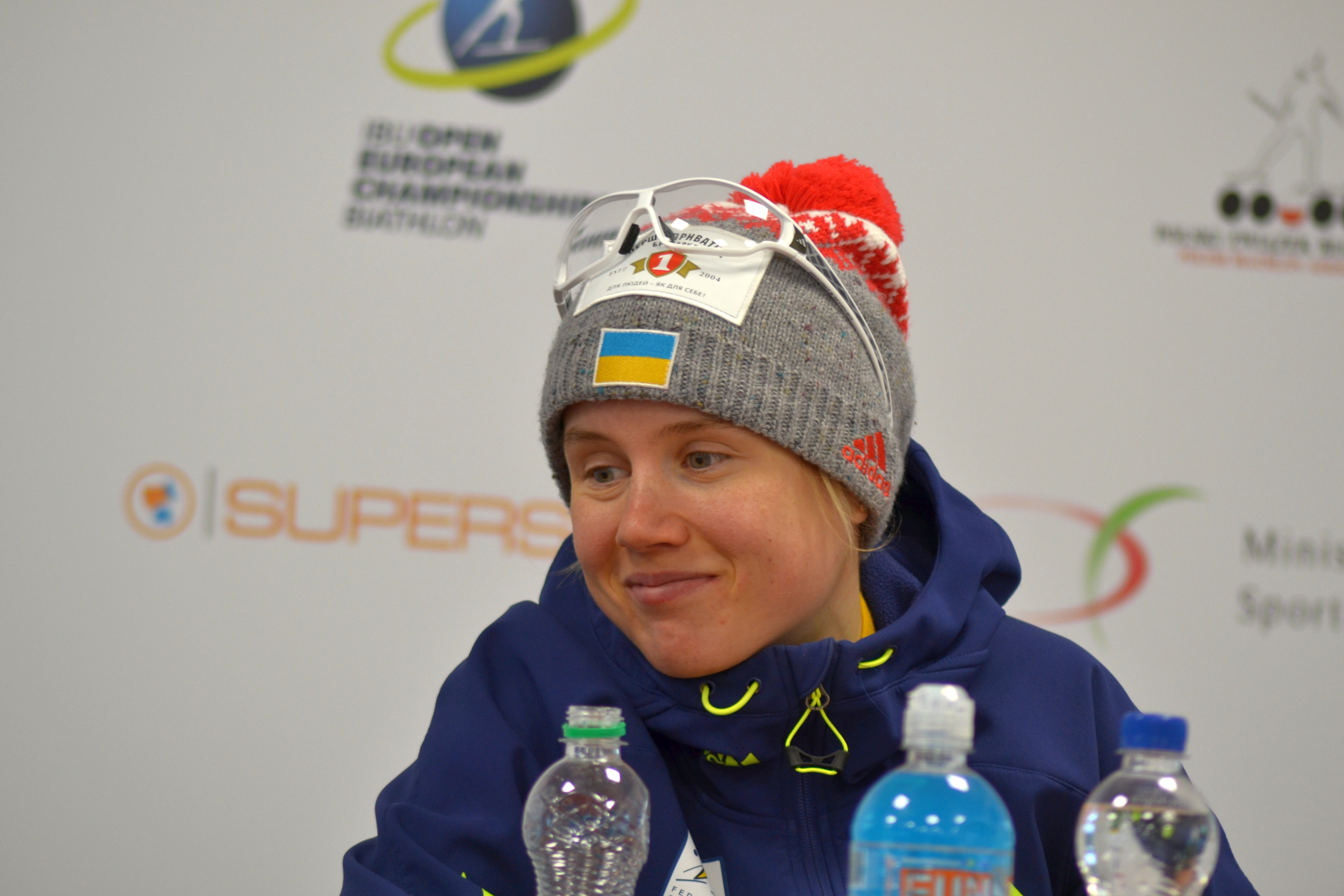 Open European Championships Biathlon 2017, Individual Women's race, held on January 25th.